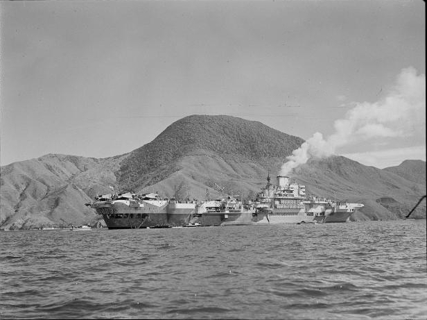 Photographer: William Hall Raine British aircraft carrier Indefatigable, Queen Charlotte Sound, November 1945 Reference number: 1/4-020661-G Glass negative Photographic Archive, Alexander Turnbull Library Zoomable image on library Timeframes website